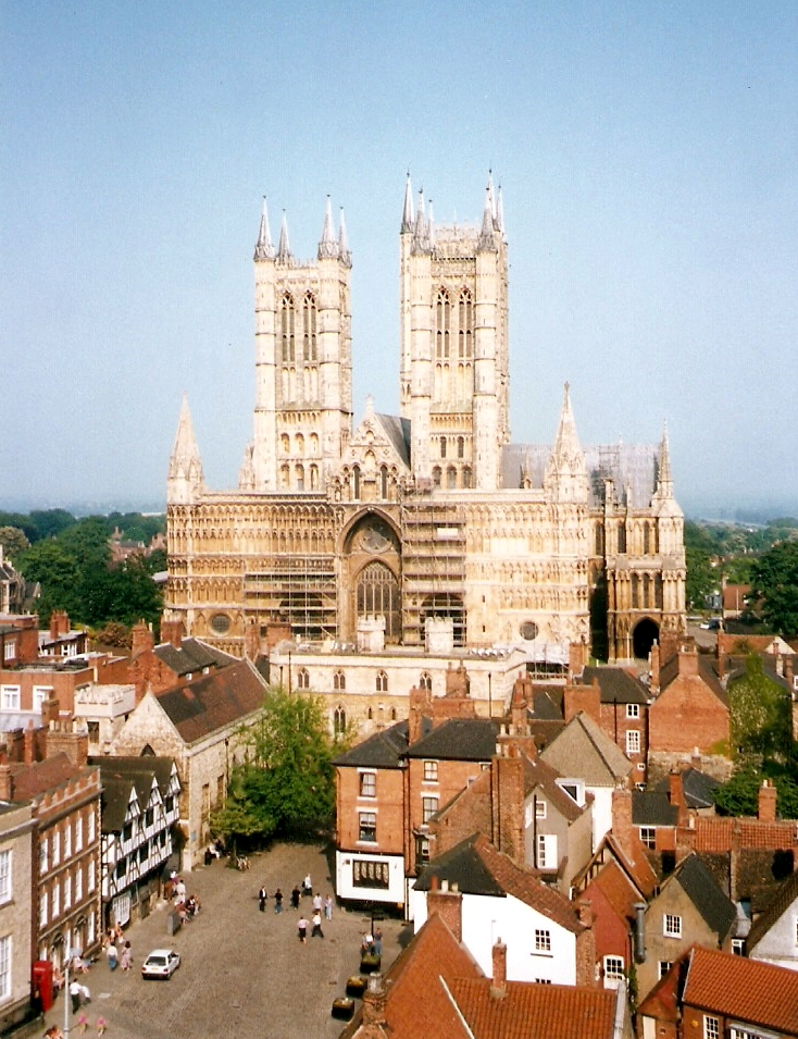 West End of Lincoln Cathedral from the Castle